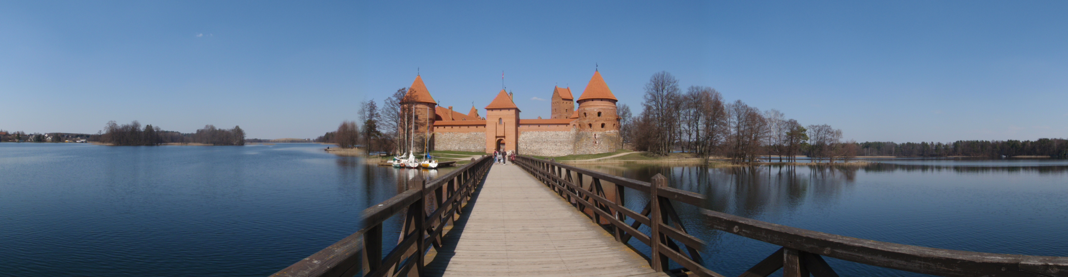 A panoramic view of Trakai Island Castle on Lake Galvė in Trakai, Lithuania.